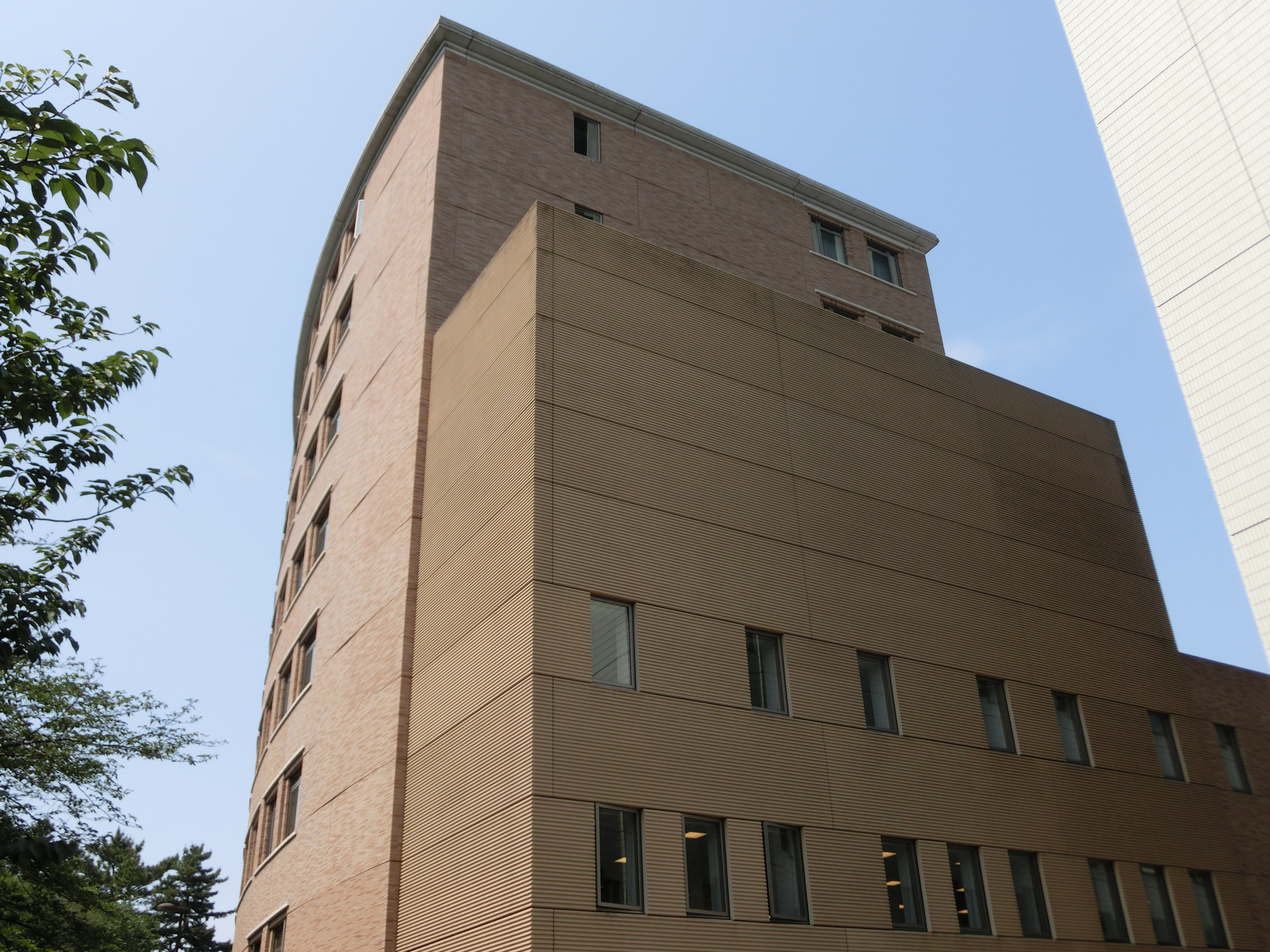 Kibe Hall